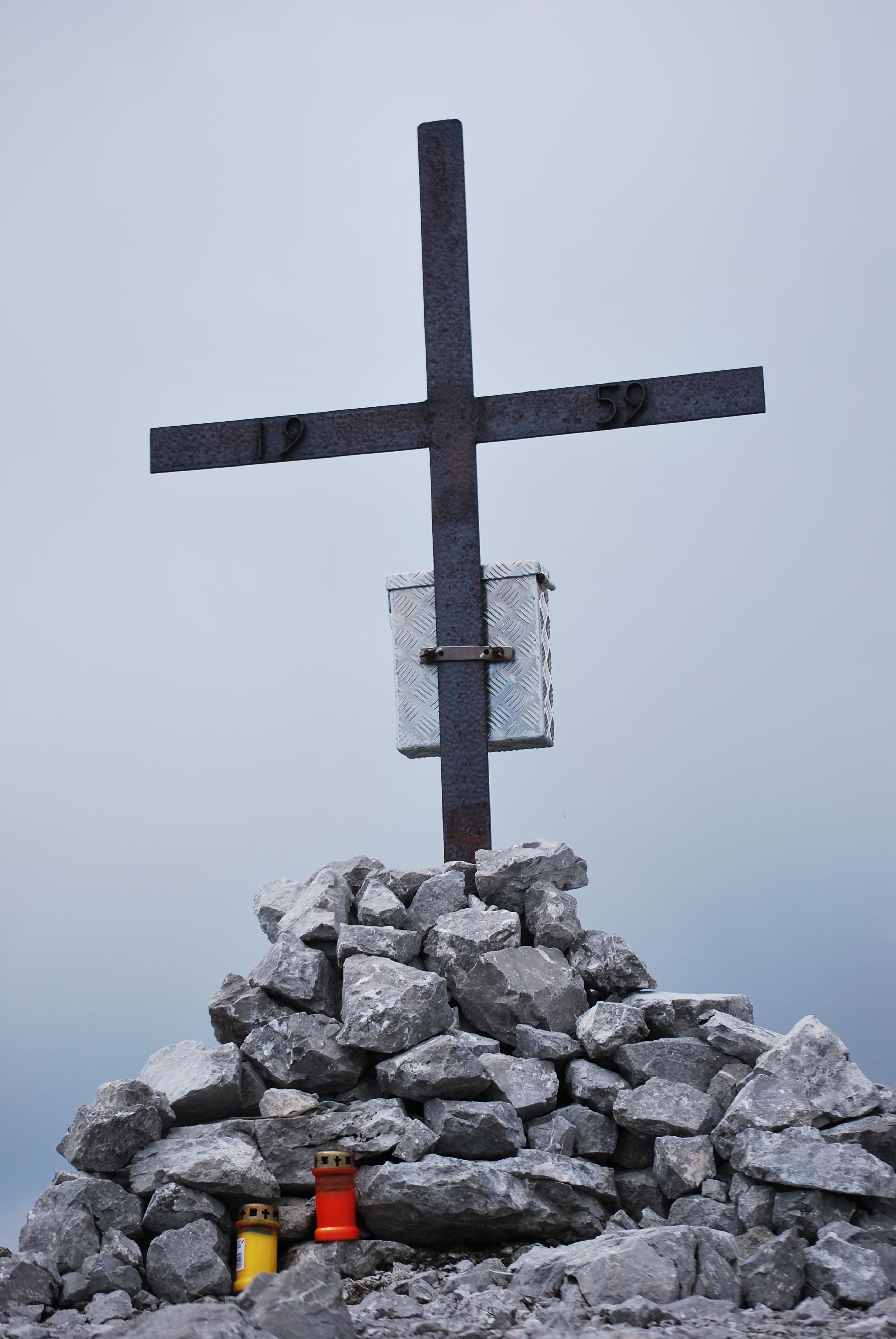 Fiechter Spitze Summit